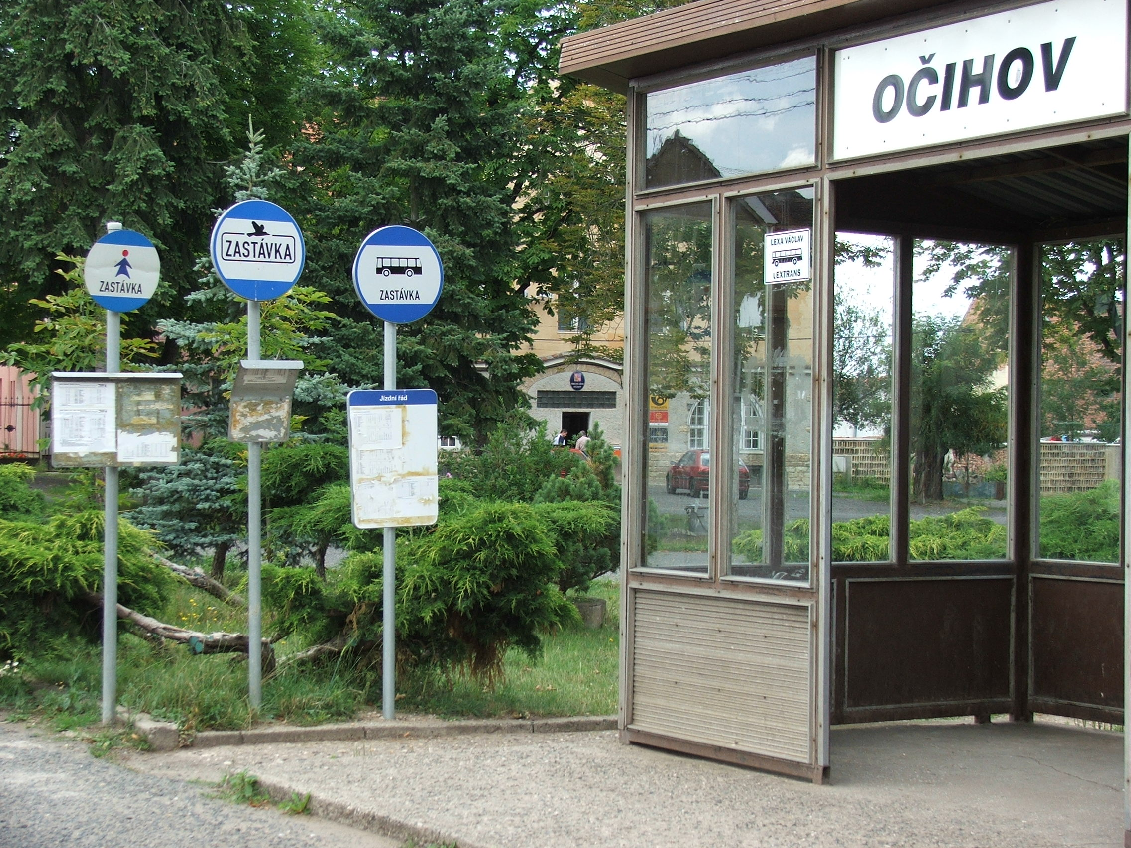 How many buses stops here? It seems transporters companies are not able to share bus stops signs with each other, Očihov, Ústí nad Labem region, Czechia